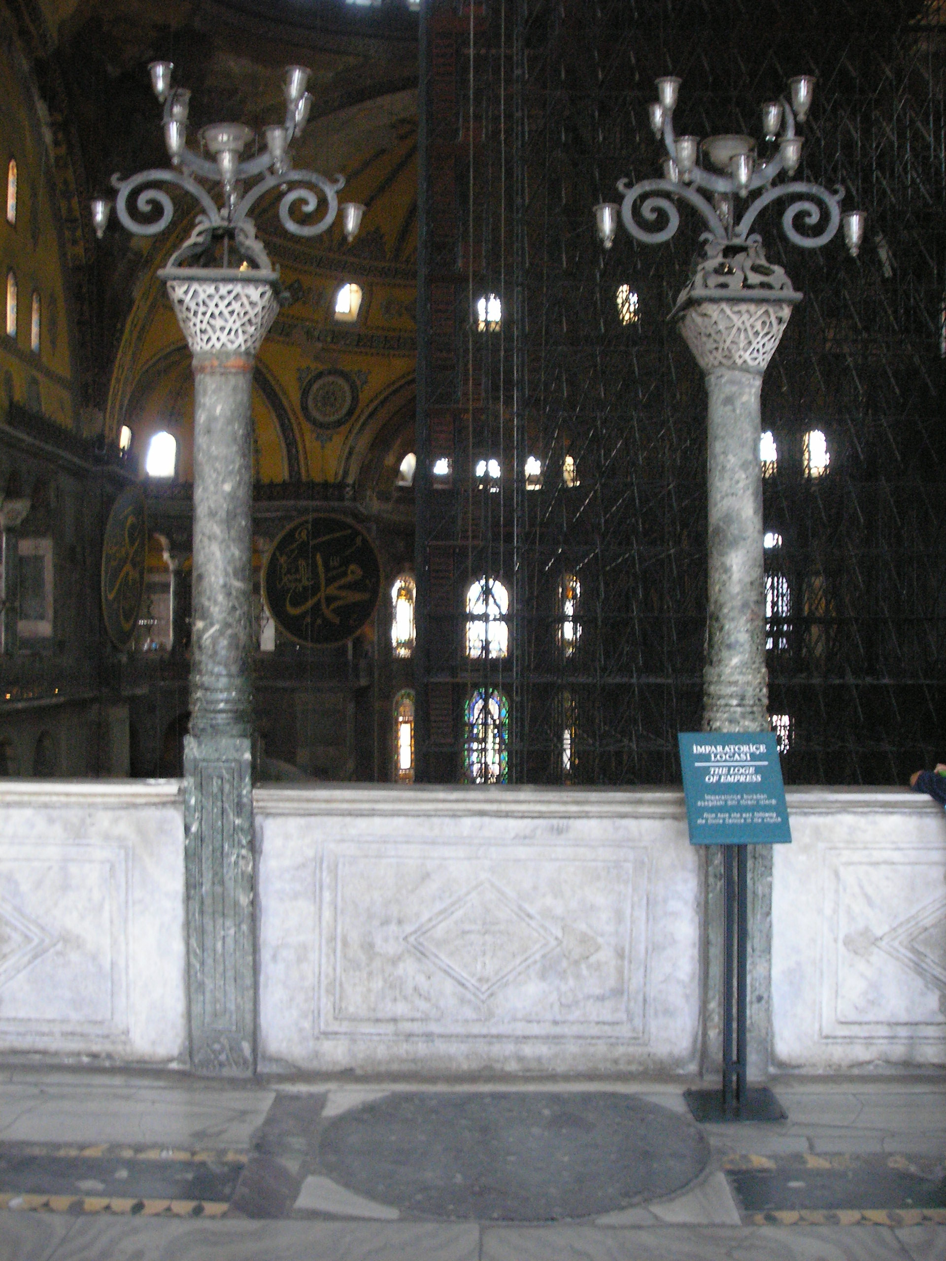 The Loge of the Empress in the upper enclosure of the Hagia Sophia. From here the empress and the court ladies watched the proceedings down below the basilica.